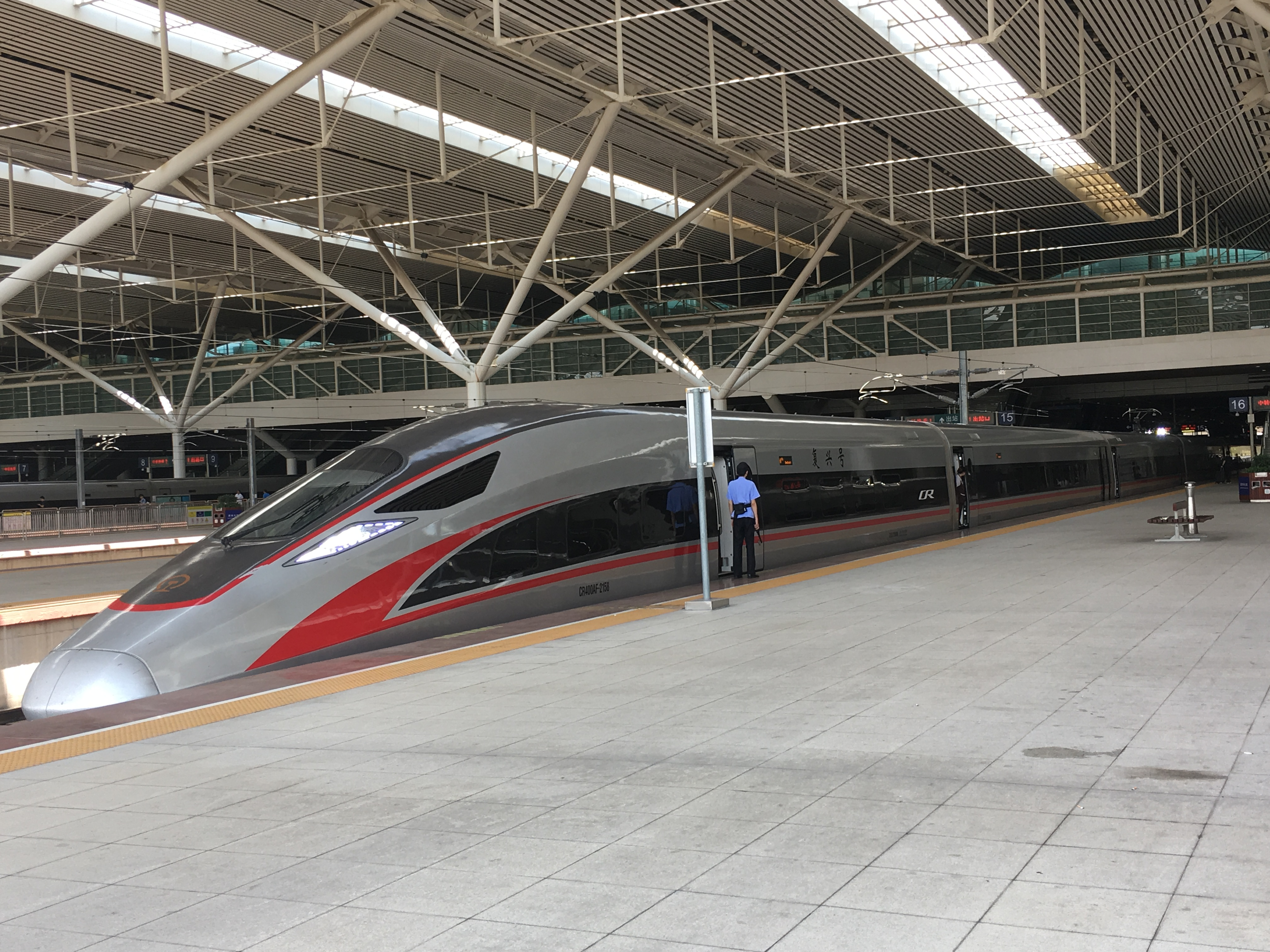 中文（香港）: This photo is taken in Shenzhenbei.